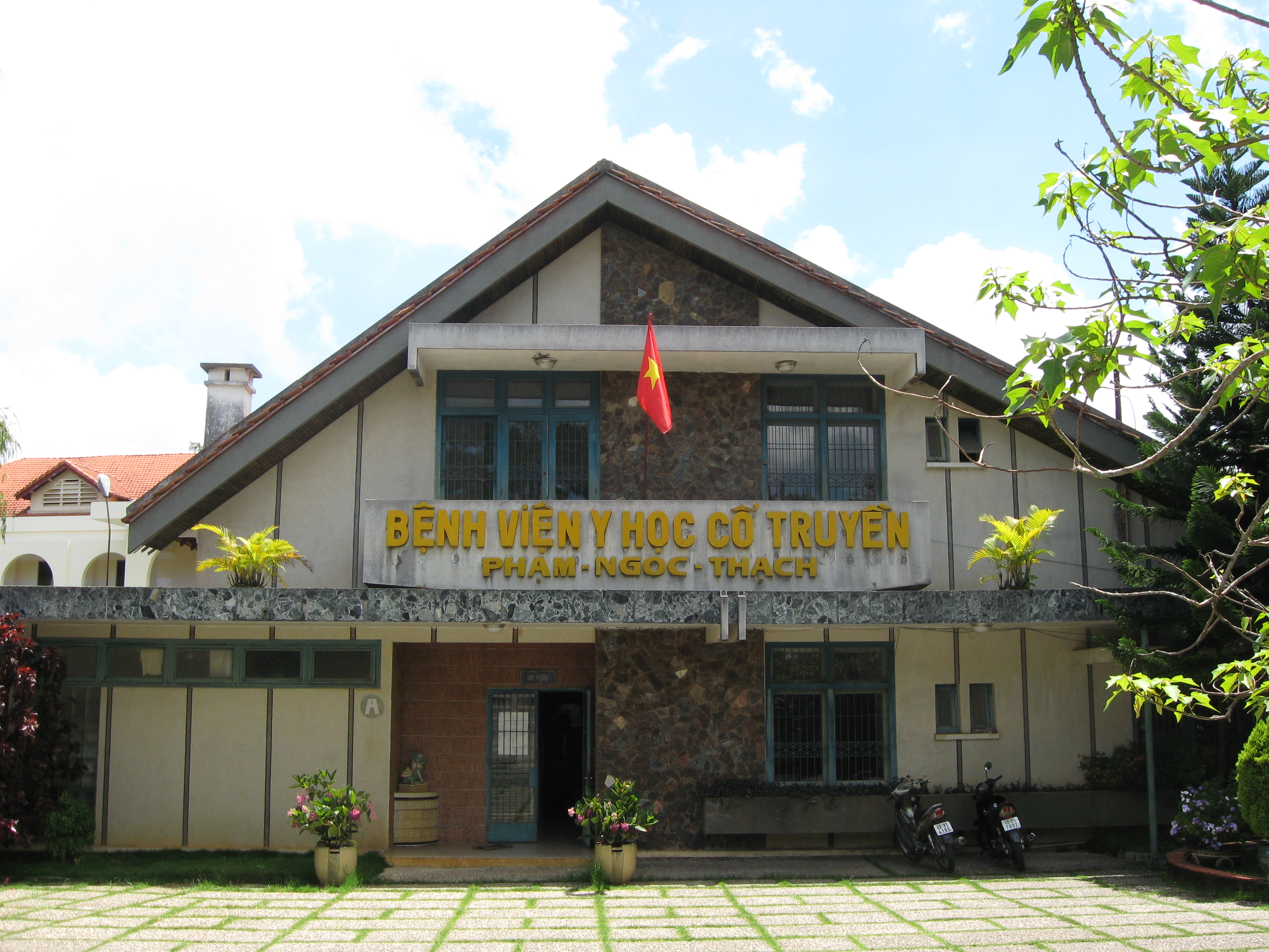 Pham Ngoc Thach Traditional Medicine Hospital, Da Lat